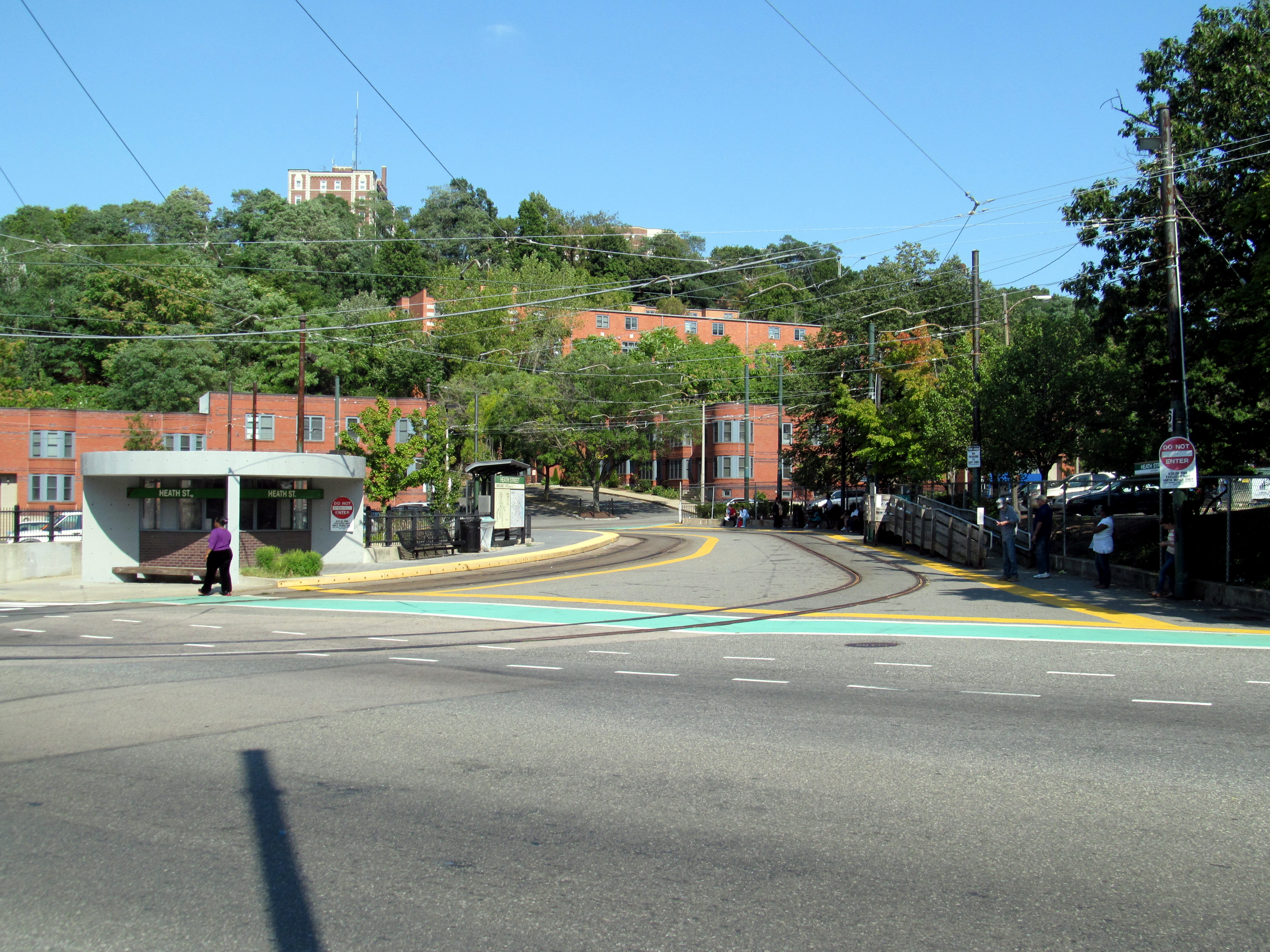 Heath Street station in September 2012 with Mission Hill behind